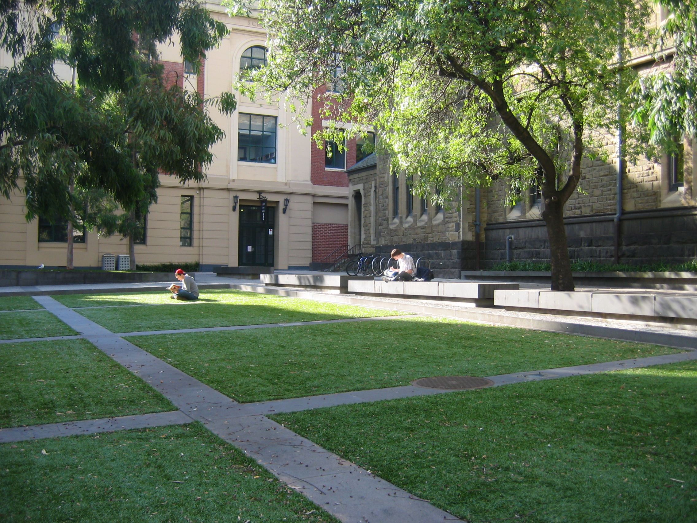 Ellis Court in Bowen Street, RMIT University, Melbourne, Australia.